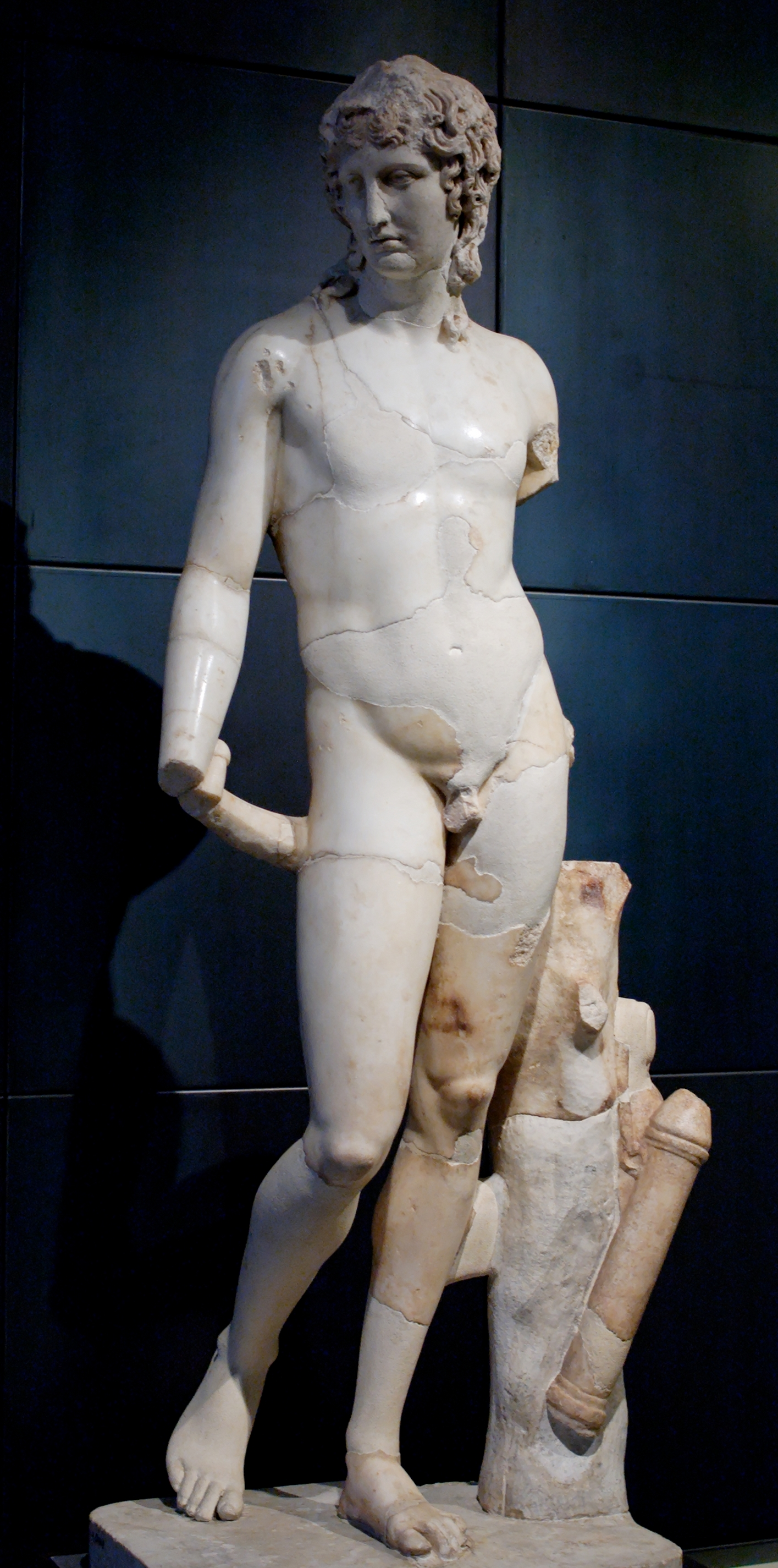 Statue of Eros of the Centocelle type. Roman copy of the Antonine era from a Late Classical original.